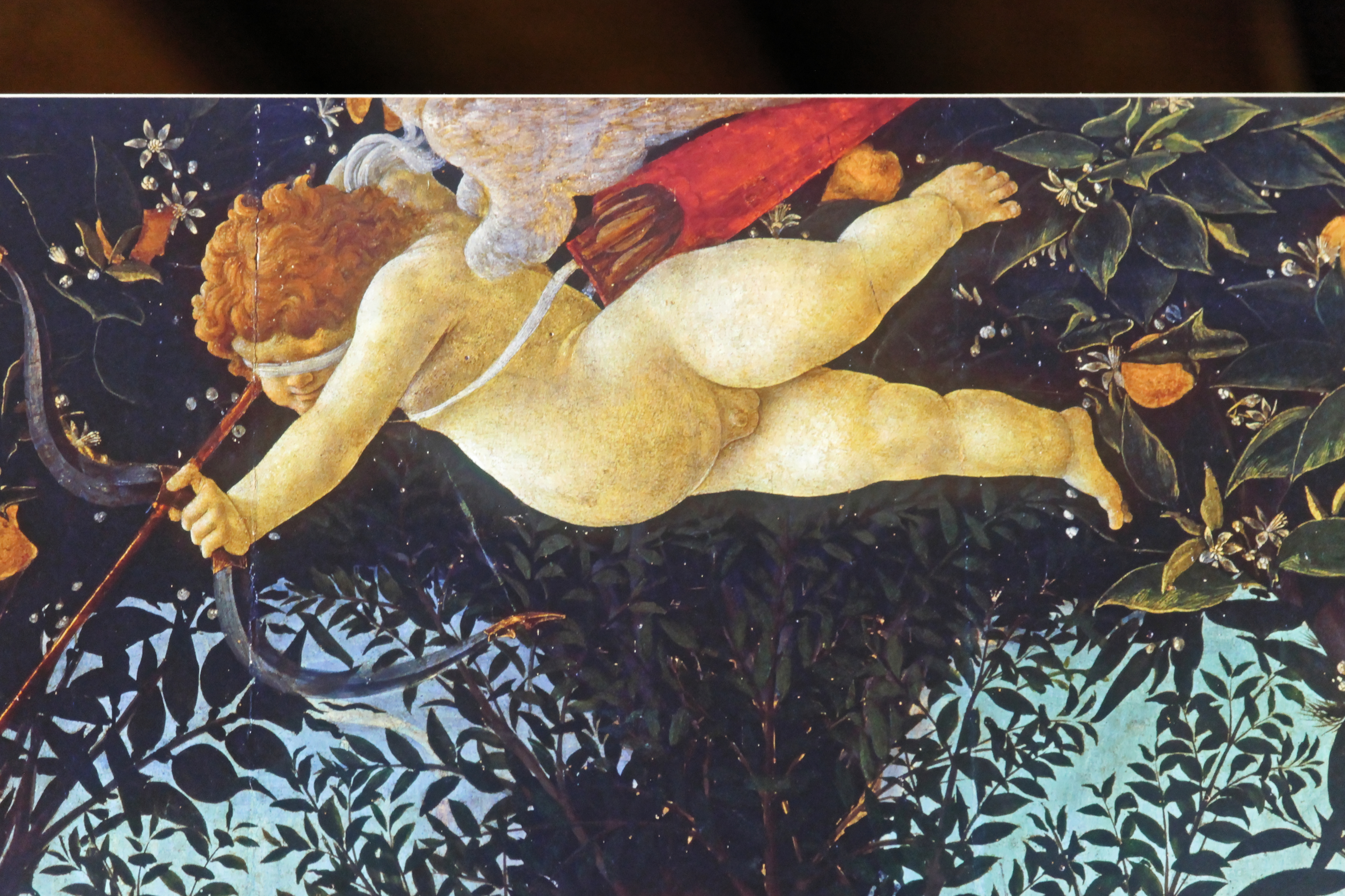 Primavera by Sandro Botticelli, "Der schöne Schein" exhibition of replicas of well-known artwork in the Gasometer in Oberhausen